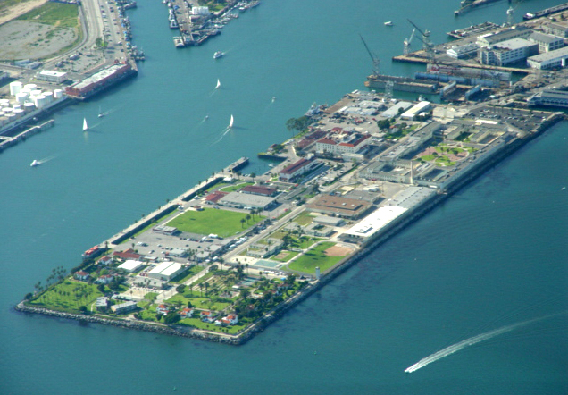 Reservation Point, the southwest portion of Terminal Island. It includes Federal Correctional Institution, Terminal Island, a US Quarantine Station, and two Southwest Marine Shipyard drydocks.